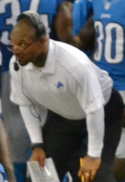 Detroit Lions running backs coach Sam Gash in 2012